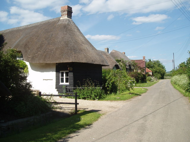 Cottages in Sutton Lane